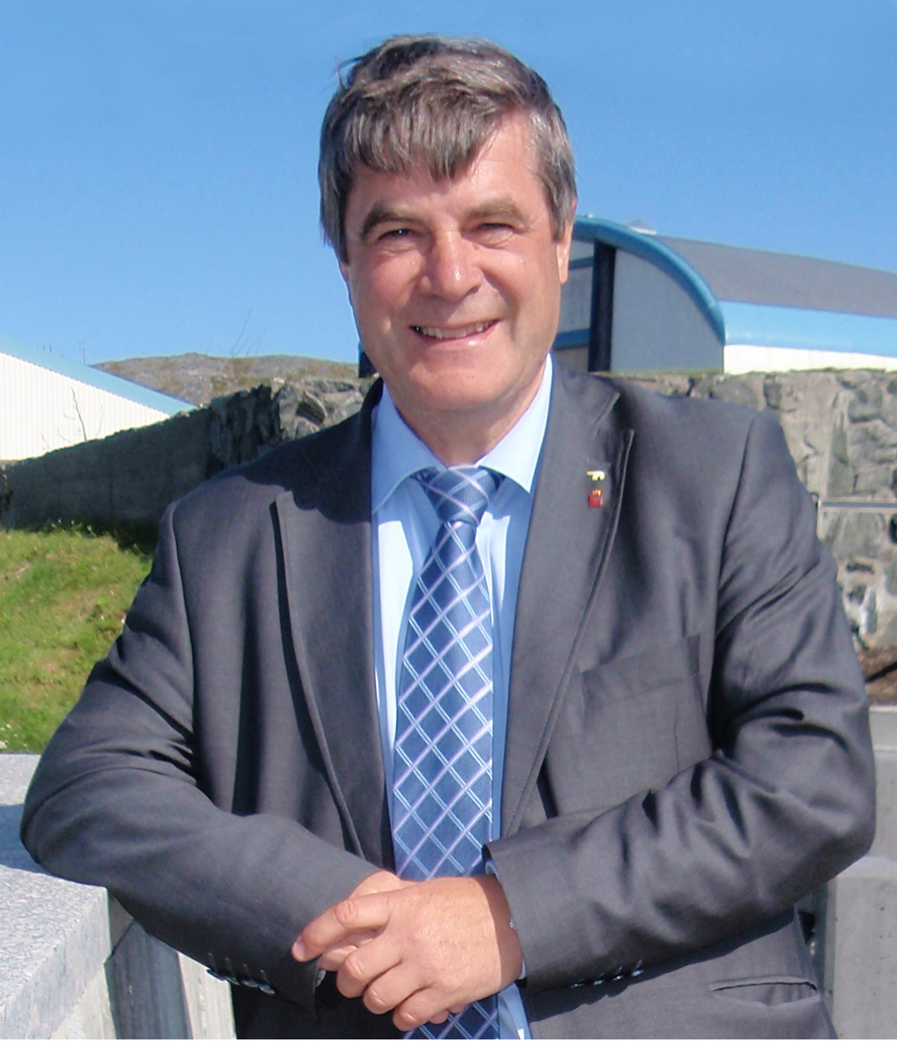 Mayor of Hammerfest (and 1989-1993, 2001-2009 Member of the Norwegian Parliament) Alf E. Jakobsen.